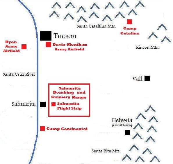 General map of Tucson, Arizona, and surroundings during World War II. Only locations that existed during World War II are featured. (Camp Continental = German POW camp) (Camp Catalina [aka: Catalina Federal Honor Camp] = Japanese internment camp)